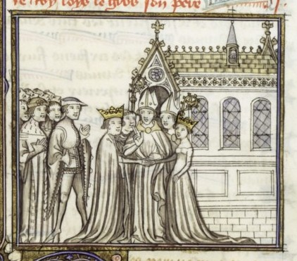 Eleanor of Aquitanie and her first husband